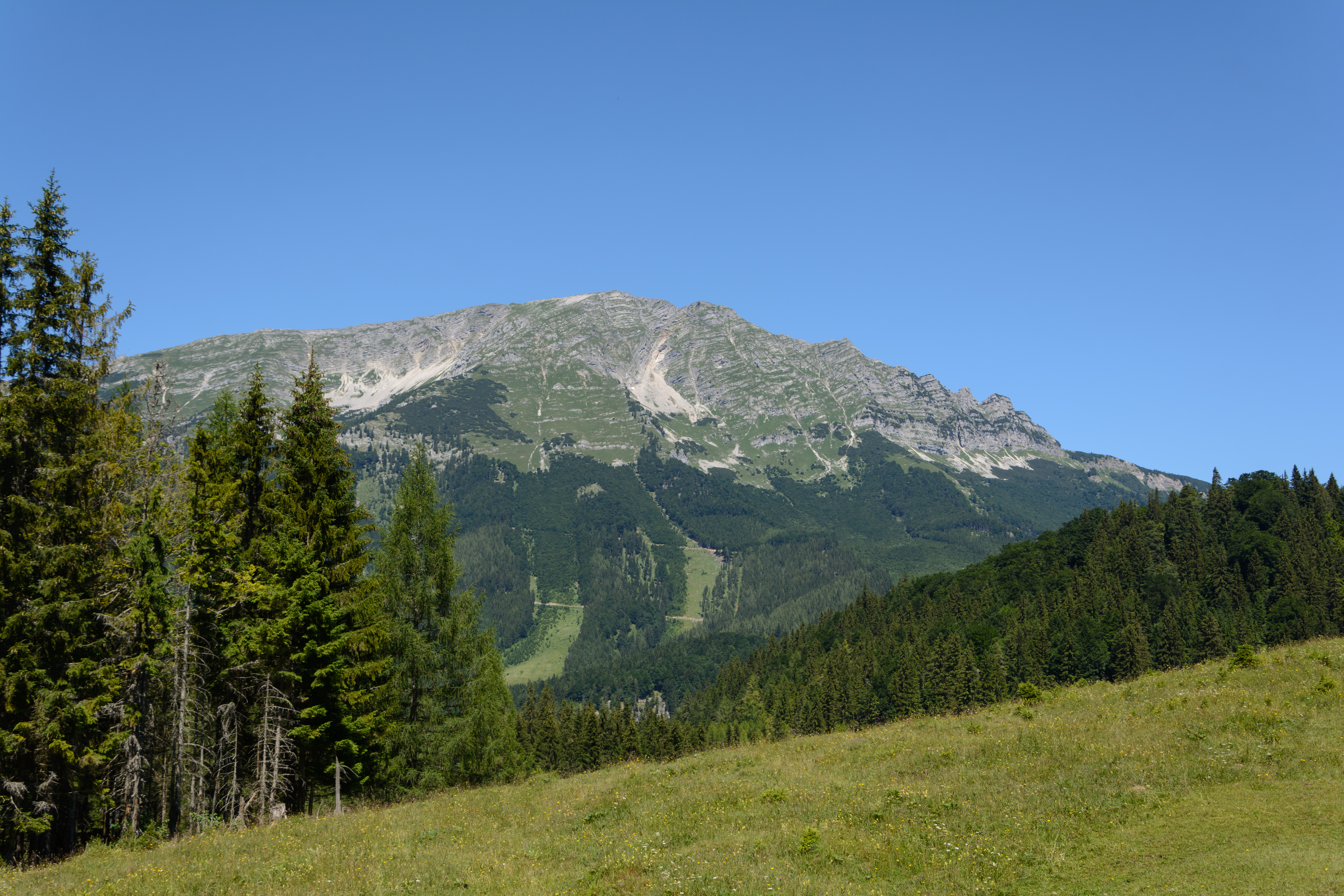 South side of the Ötscher (1,893 metres (6,211 ft)), nature park Ötscher-Tormäuer, Lower Austria This file shows the Nature Park with the ID 3101 in Austria.